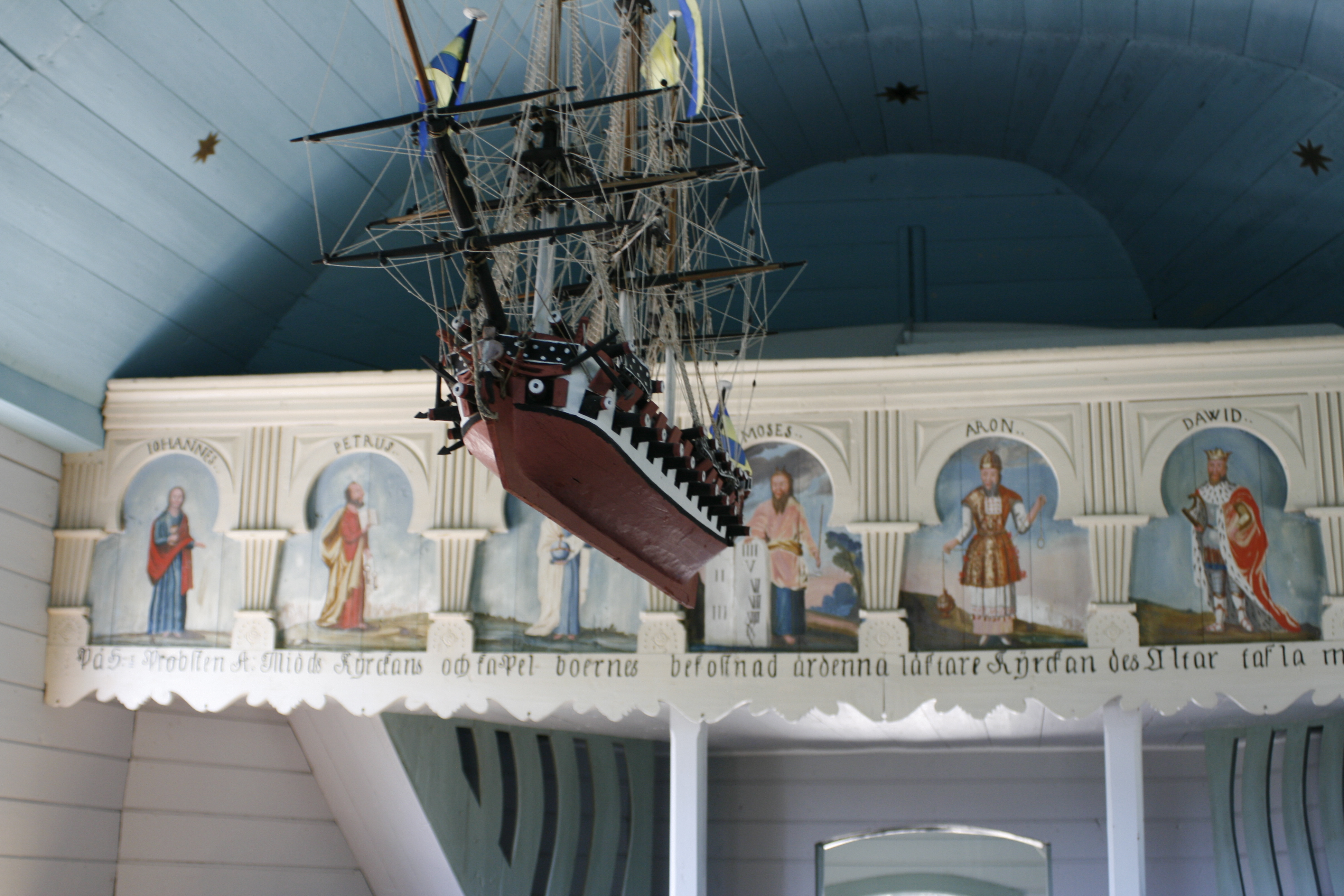 Pictures painted by Gustaf Lucander (1743–1805). Ship models are common in churches along the Finnish coast. Some of them are votive gifts.